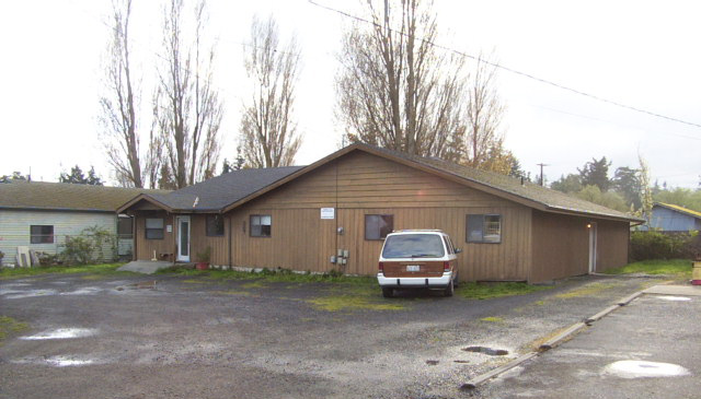 The building which housed the now defunct Loompanics Unlimited at 337 Sherman Street, Port Townsend, WA